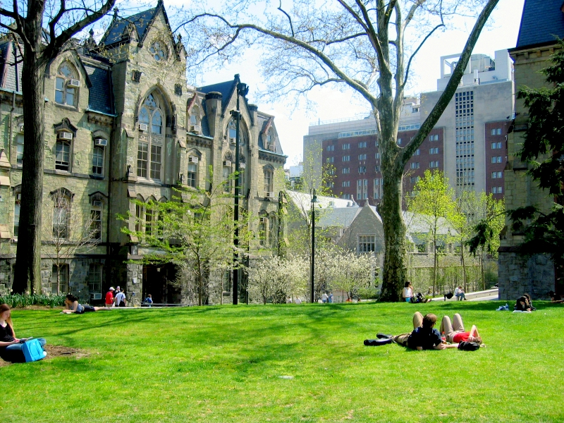 One lazy spring day, College Green